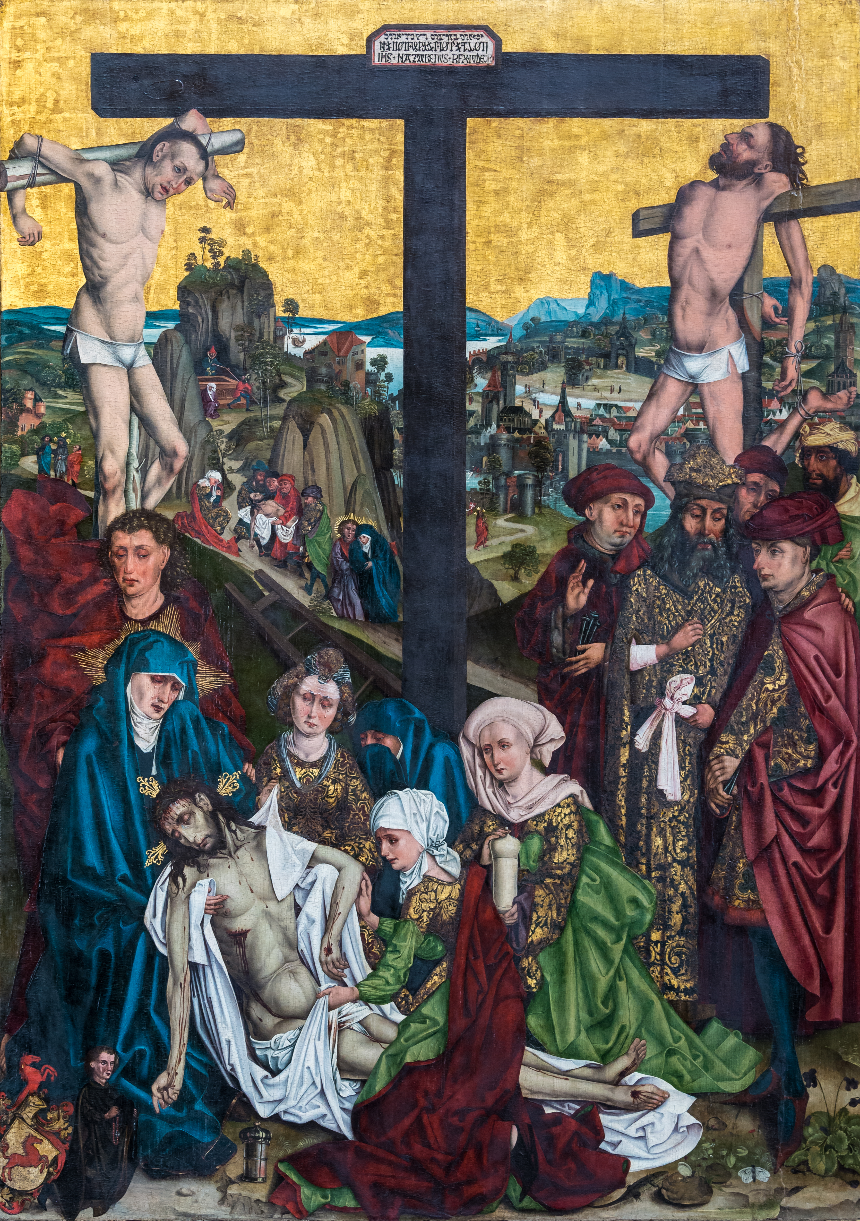 Epitaph for Georg Keyper